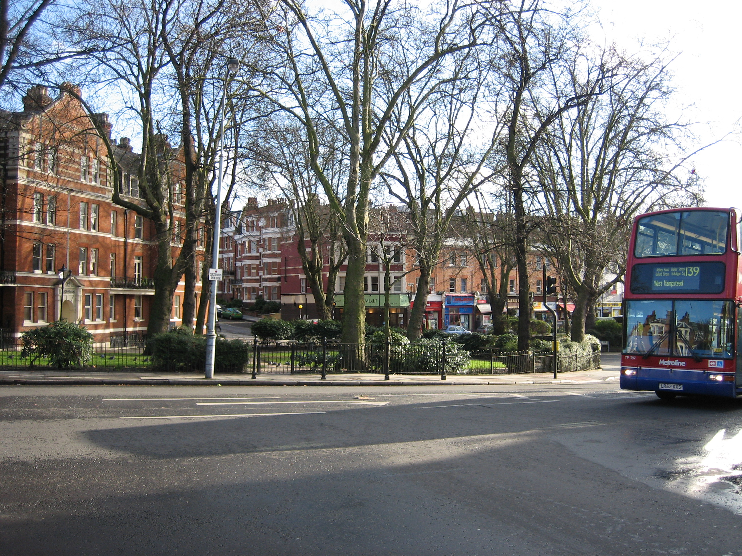 Looking across to the cluster of shops at the northern end of West End Lane. Also shows the 139 Bus service from Waterloo Station about to terminate at West Hampstead.